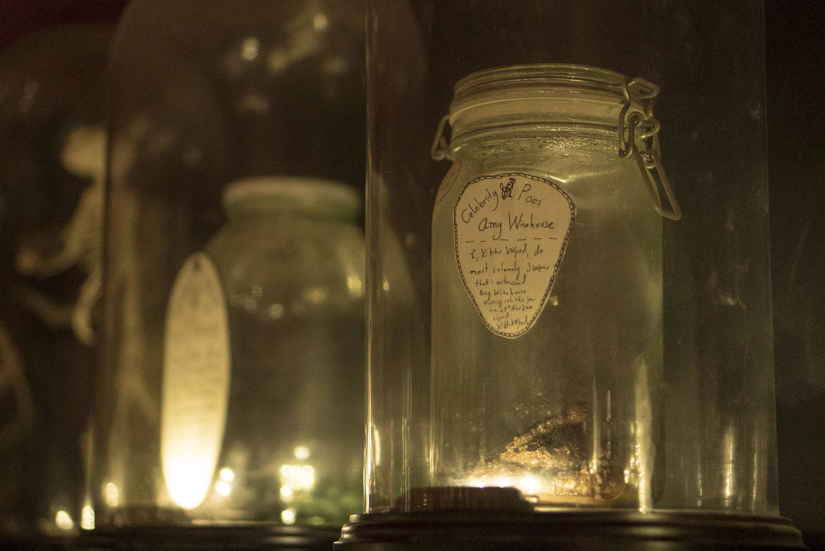 Amy Winehouse's poo at the Viktor Wynd Museum.